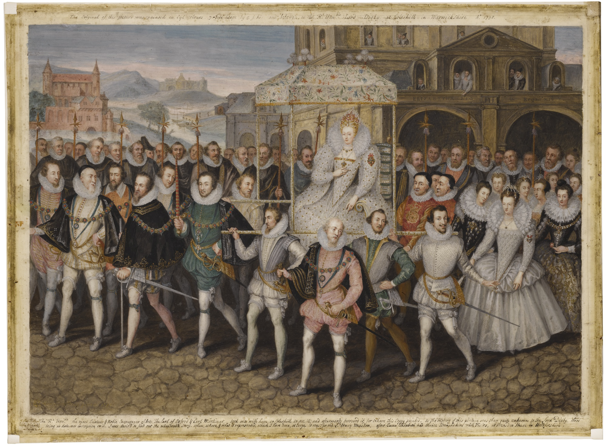 Procession portrait of Elizabeth I of England c. 1601. Queen Elizabeth I preceded by the Knights of the Garter. From left: Edmund Sheffield, later Earl of Mulgrave; Charles Howard, Lord Howard of Effingham and Lord Admiral; George Clifford, Earl of Cumberland; George Carey, Lord Hunsten; unknown knight, possibly Robert Radcliffe, Earl of Sussex; and Gilbert Talbot, Earl of Shrewsbury, carrying the Sword of State. In the foreground is Edward Somerset, 4th Earl of Worcester, Master of the Horse. Of the four men carrying the canopy only the one in white on the far right has been identified: Worcester's eldest son, Lord Herbert. Source: Strong, Roy. Gloriana. Thames and Hudson, 1987, pp. 154-5.